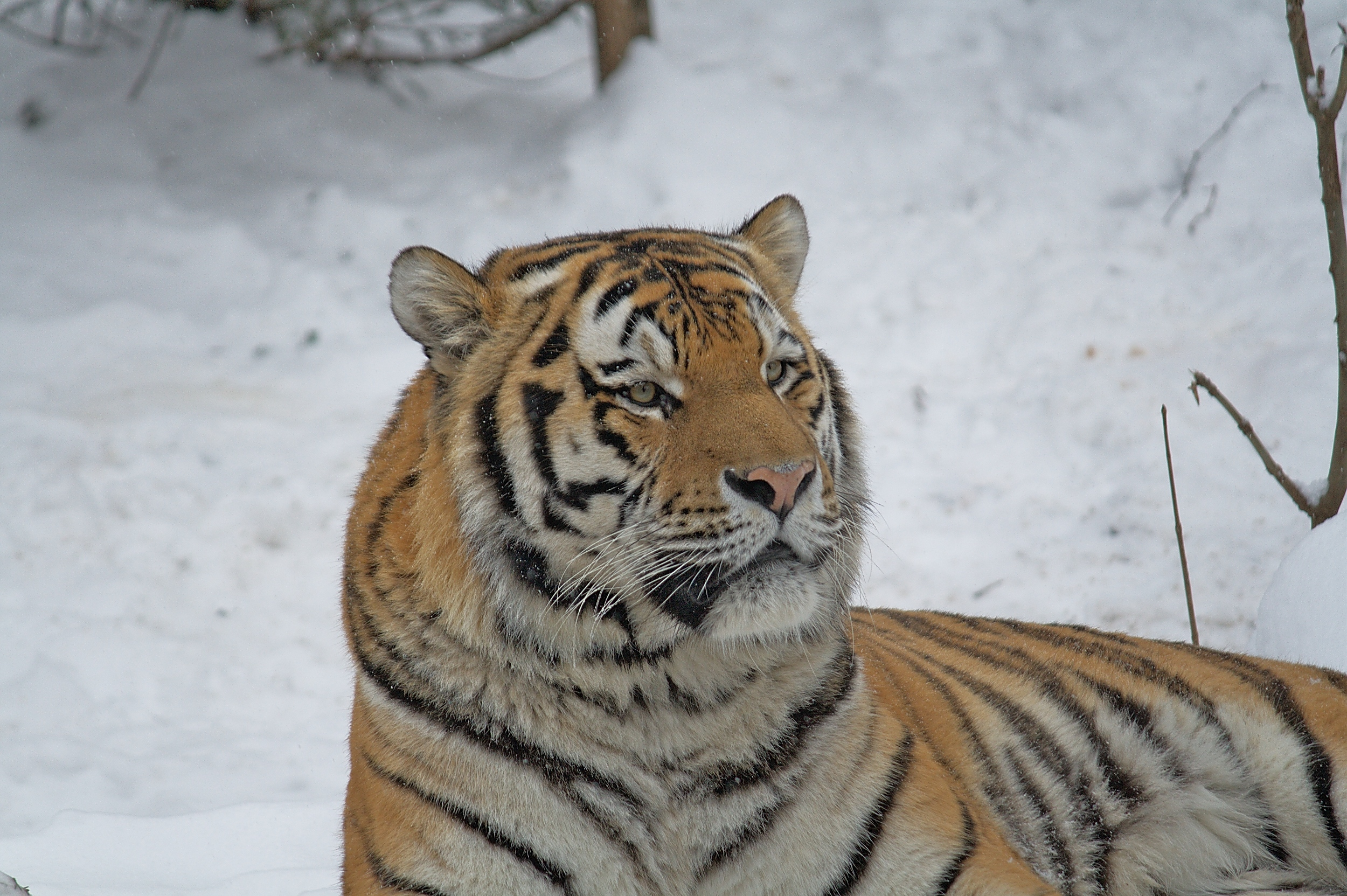 Male Panthera tigris altaica, Leipzig Zoo / Tomak (*27. Mai 2004 in Leipzig)